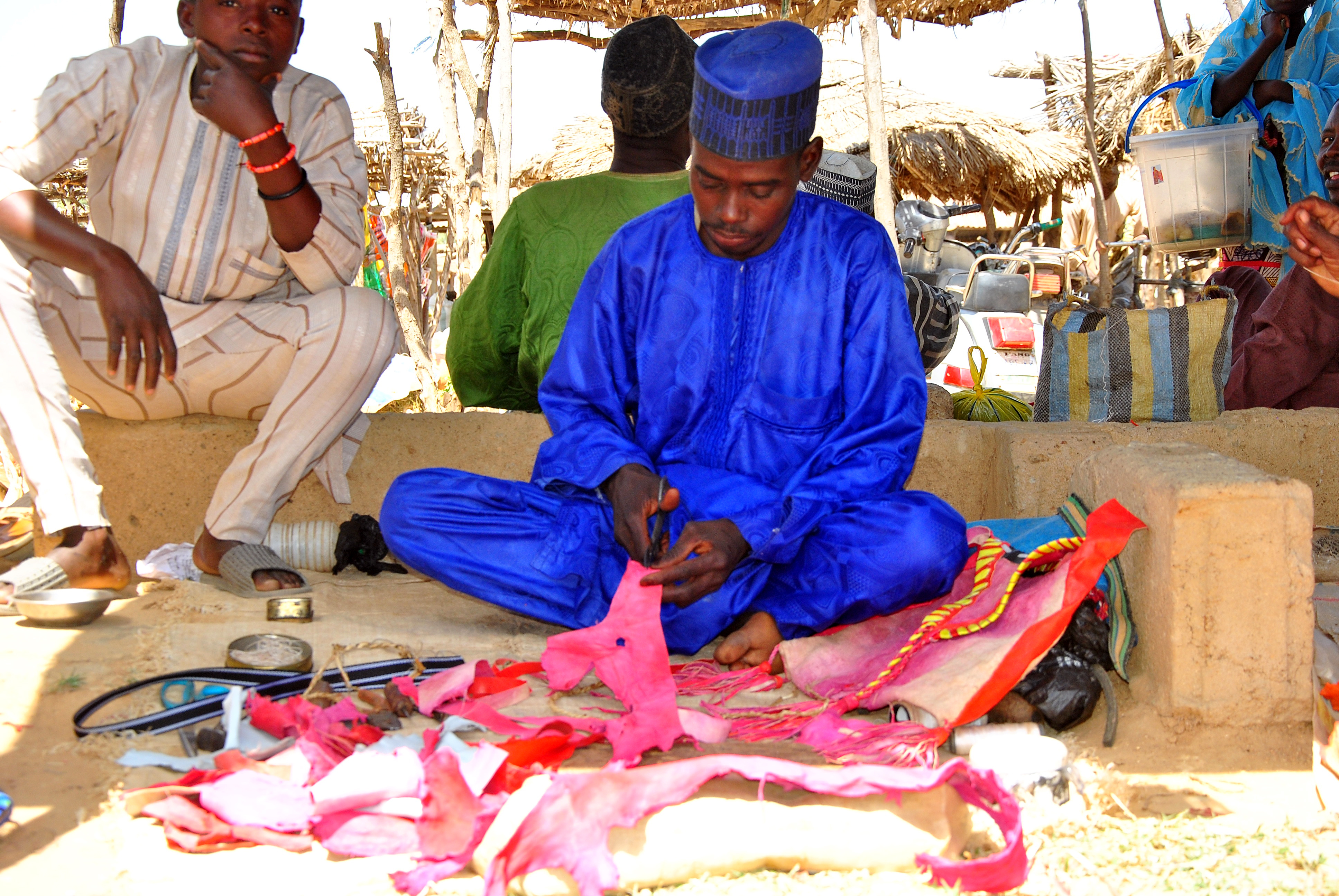 this is a man using leather to make products like water container,dog leashes, which are mostly used for hunting in the forest This is an image of "African people at work" from Nigeria